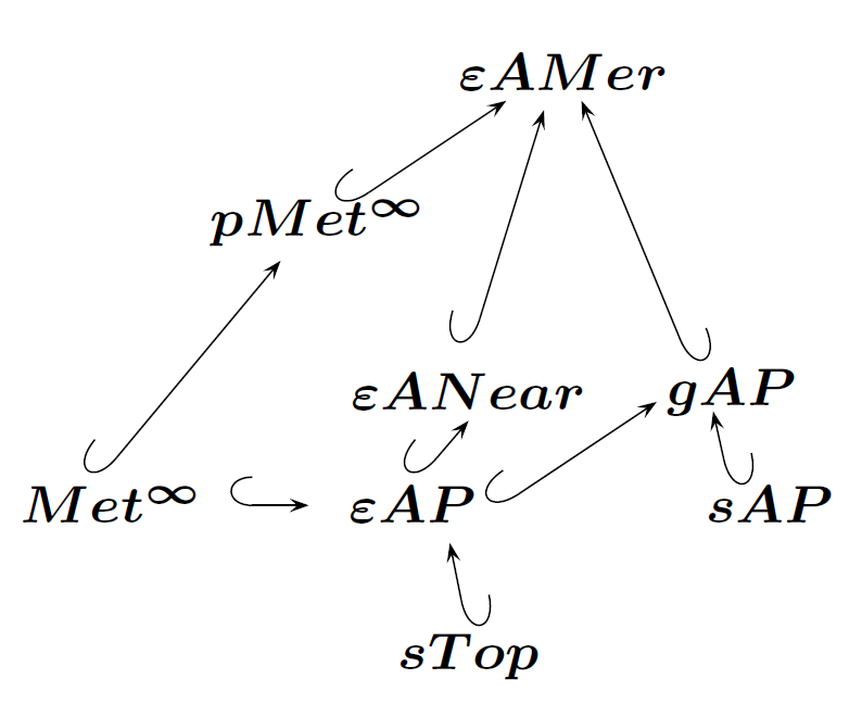 ε A N e a r {\displaystyle {\boldsymbol {\varepsilon {ANear and ε A M e r {\displaystyle {\boldsymbol {\varepsilon {AMer are shown to be full supercategories of various well-known categories, including the category s T o p {\displaystyle {\boldsymbol {sTop } of symmetric topological spaces and continuous maps, and the category M e t ∞ {\displaystyle {\boldsymbol {Met^{\infty of extended metric spaces and nonexpansive maps.